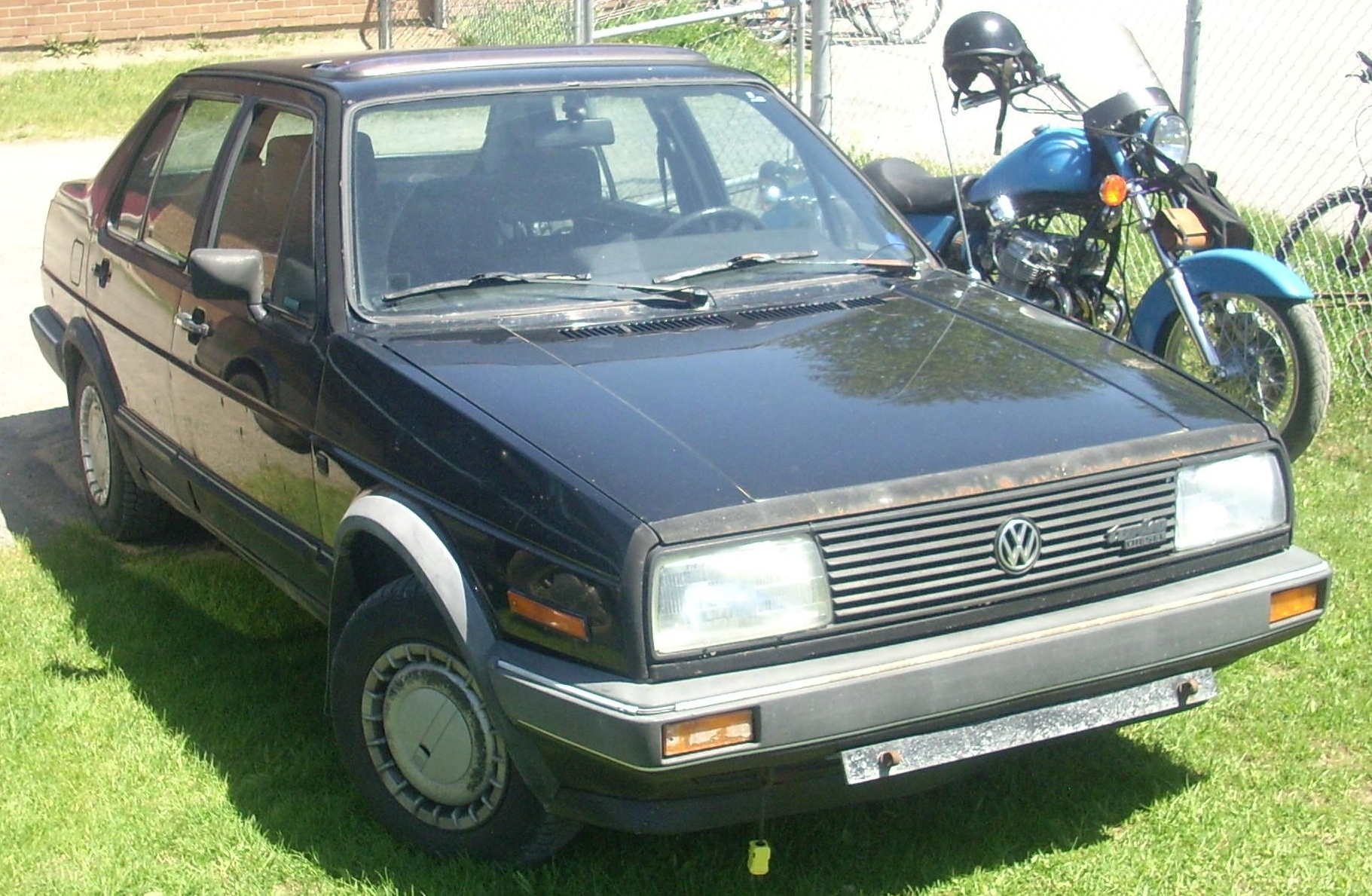 1985-1987 Volkswagen Jetta photographed in Hudson, Quebec, Canada at the 2008 Hudson British Car Show.